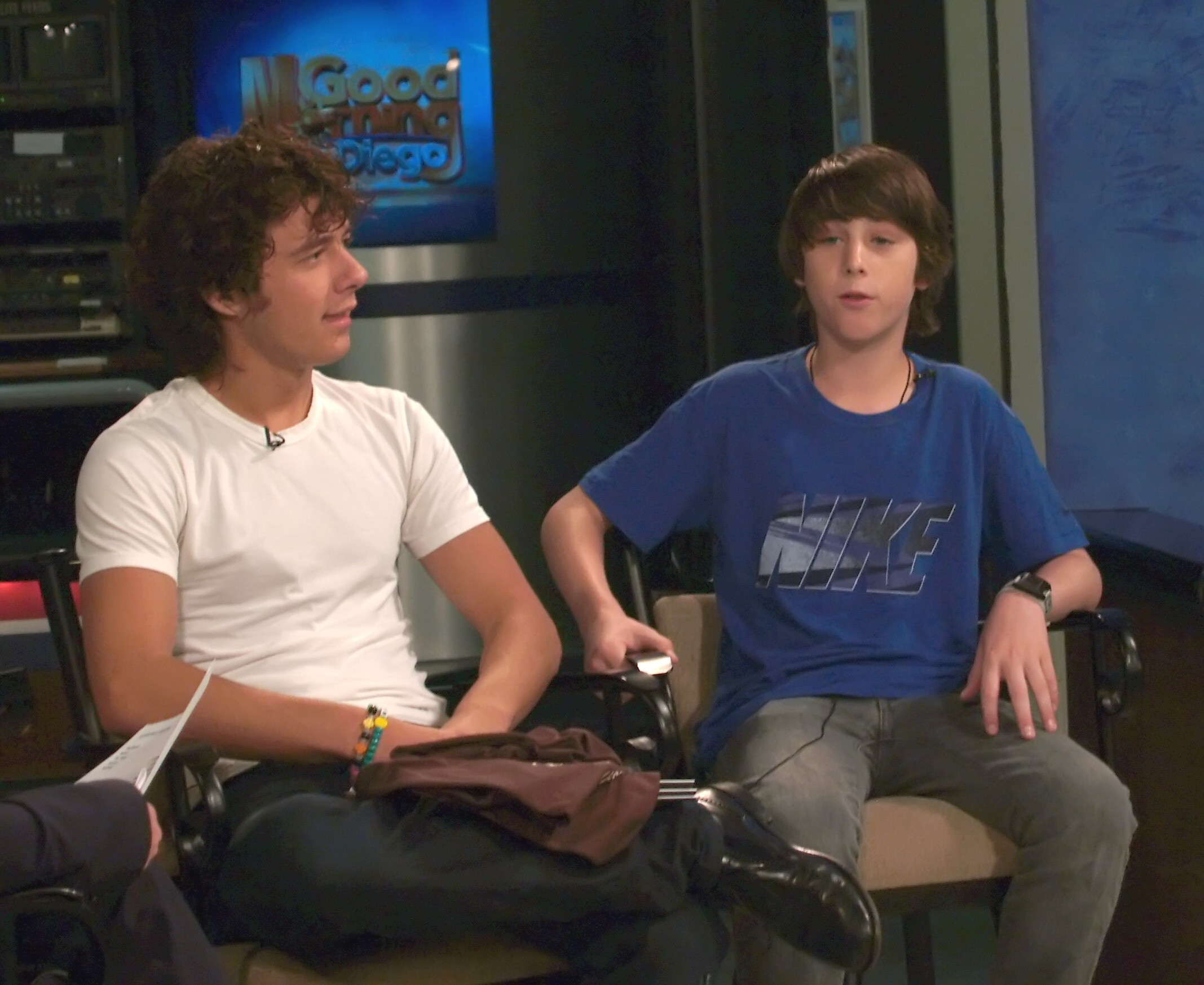 Matthew Underwood and Sterling Beaumon are two of the stars of Mostly Ghostly - 2008